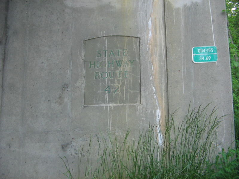 The bridge carrying Route 54 over U.S. Route 322 shows the old designation of the Black Horse Pike.